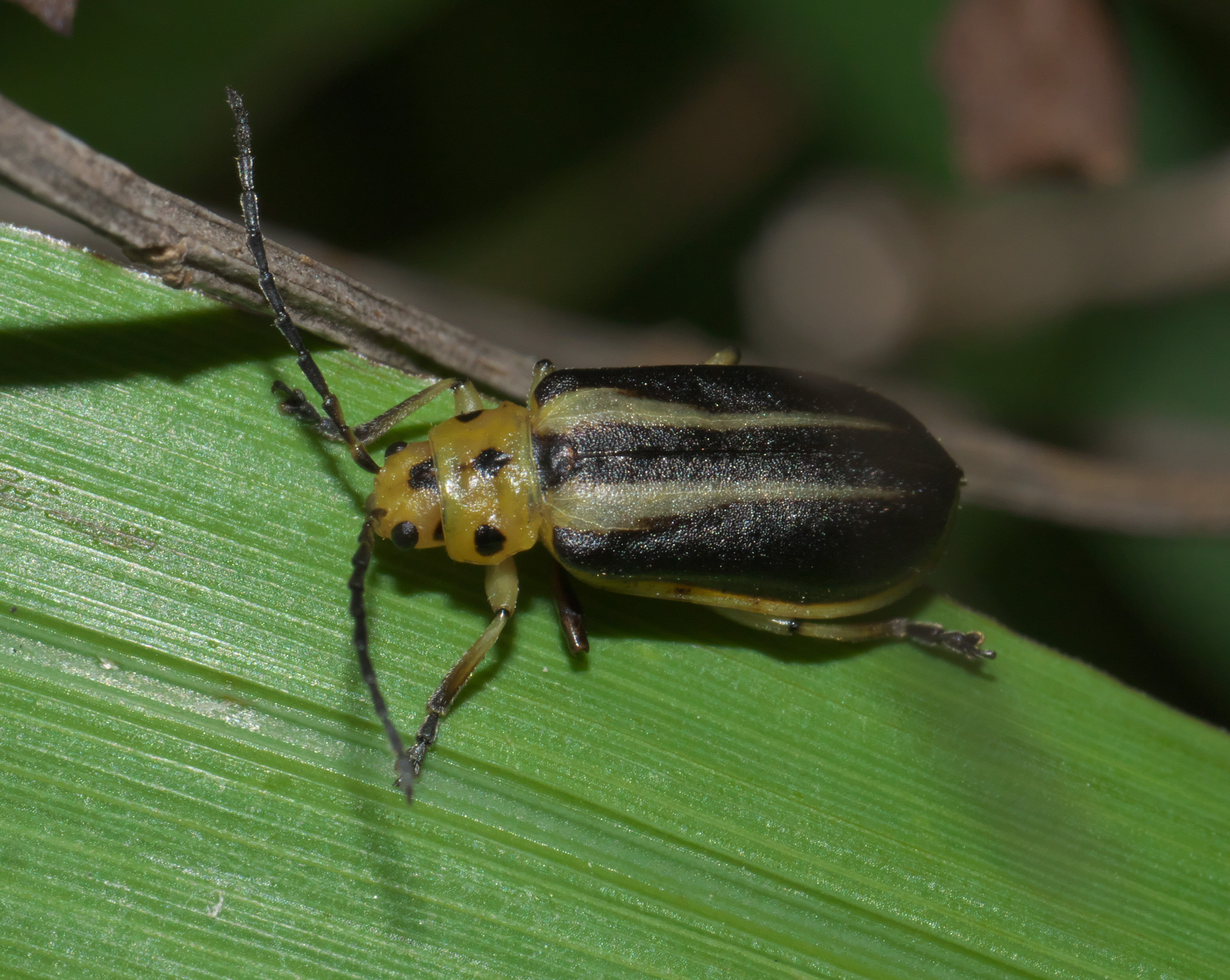 Trirhabda bacharidis, Groundselbush Beetle, ID Confidence: 89